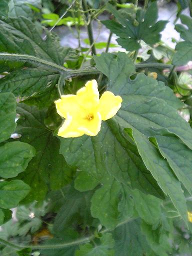 Flower of Bittermelon